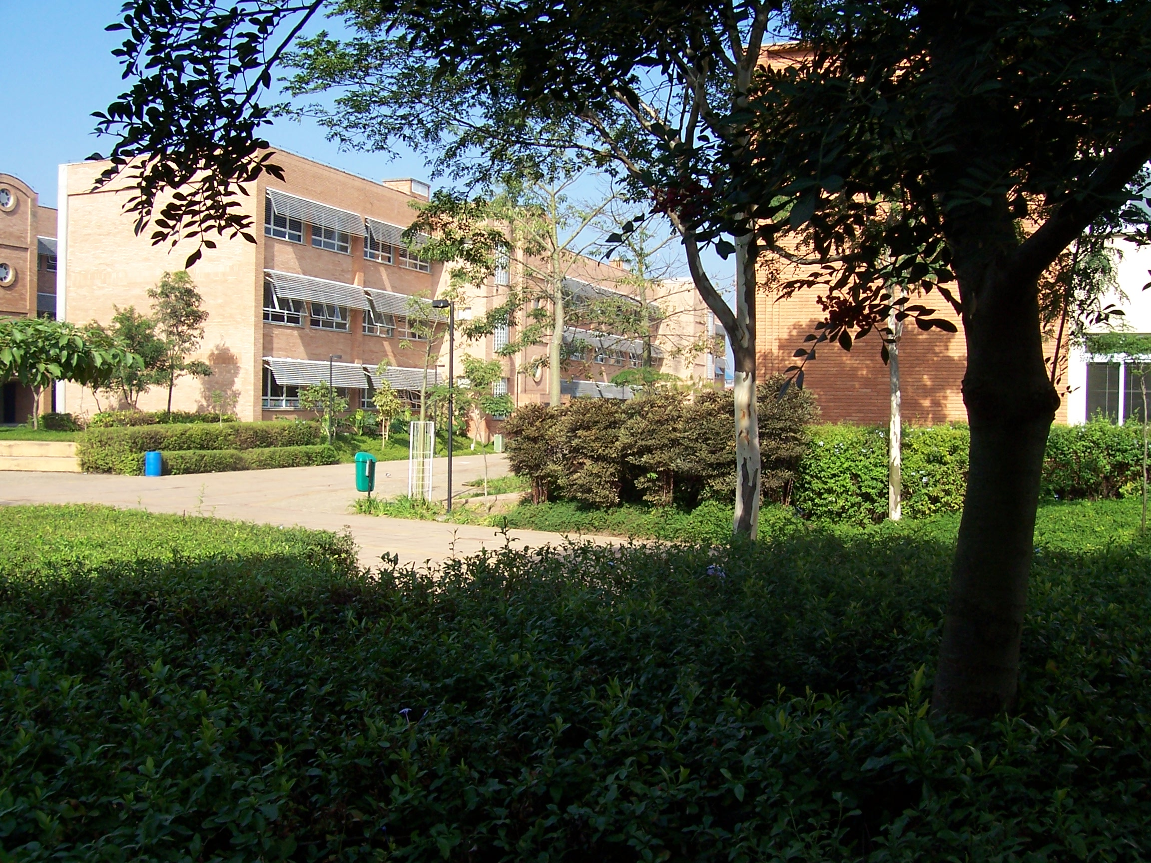 A photo from W:pt:Colégio Humboldt